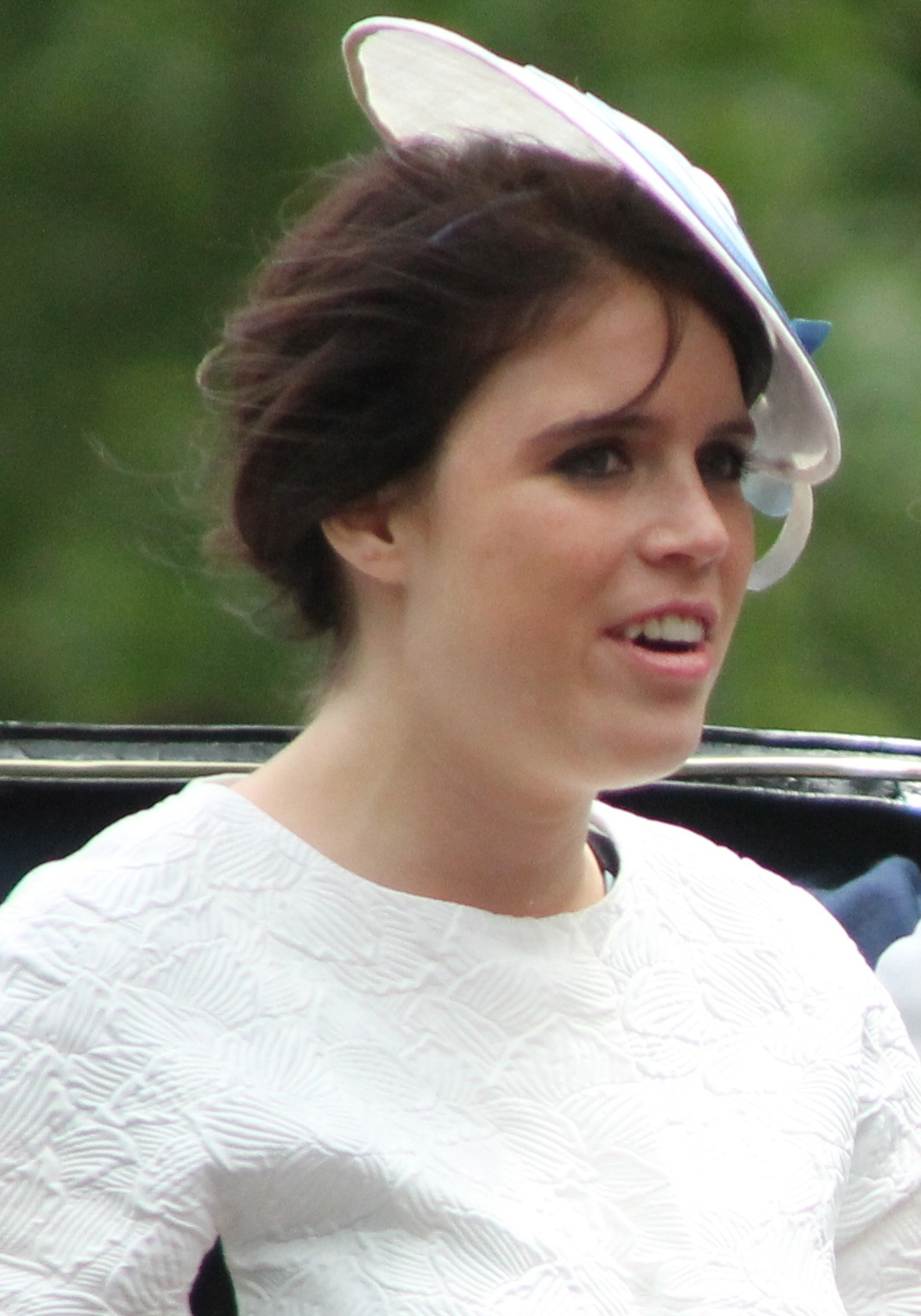 Princess Eugenie, Trooping the Colour June 2013